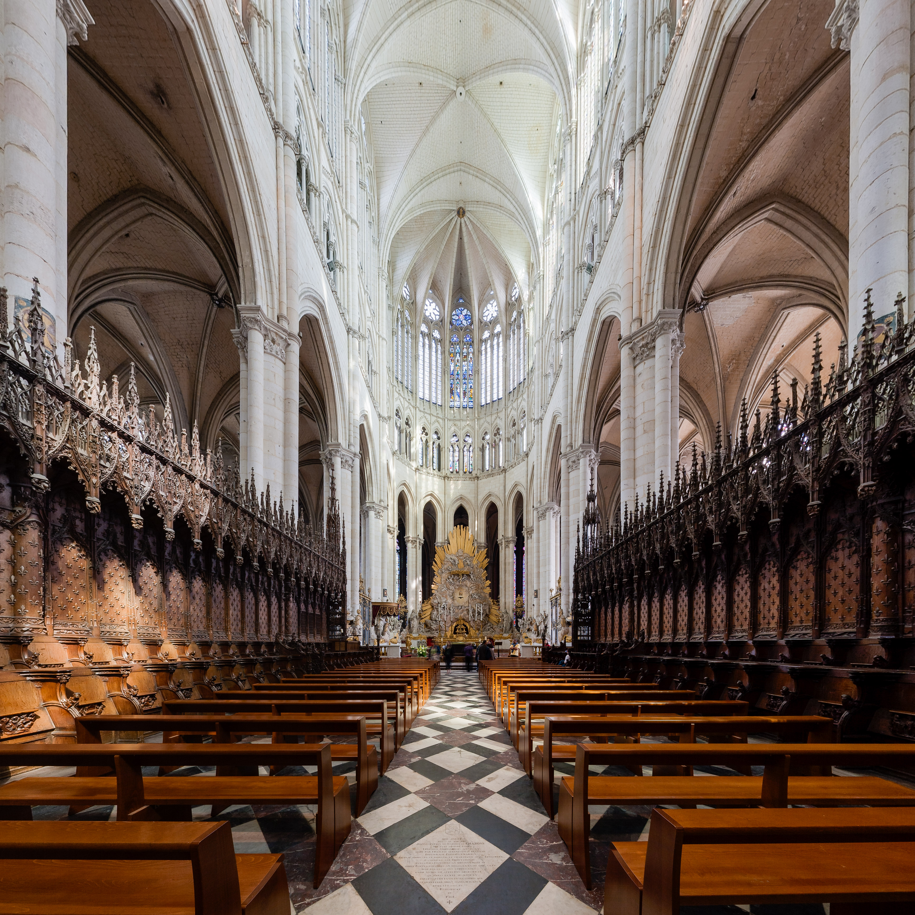 Choir of the Amiens cathedral, Picardie, north of France